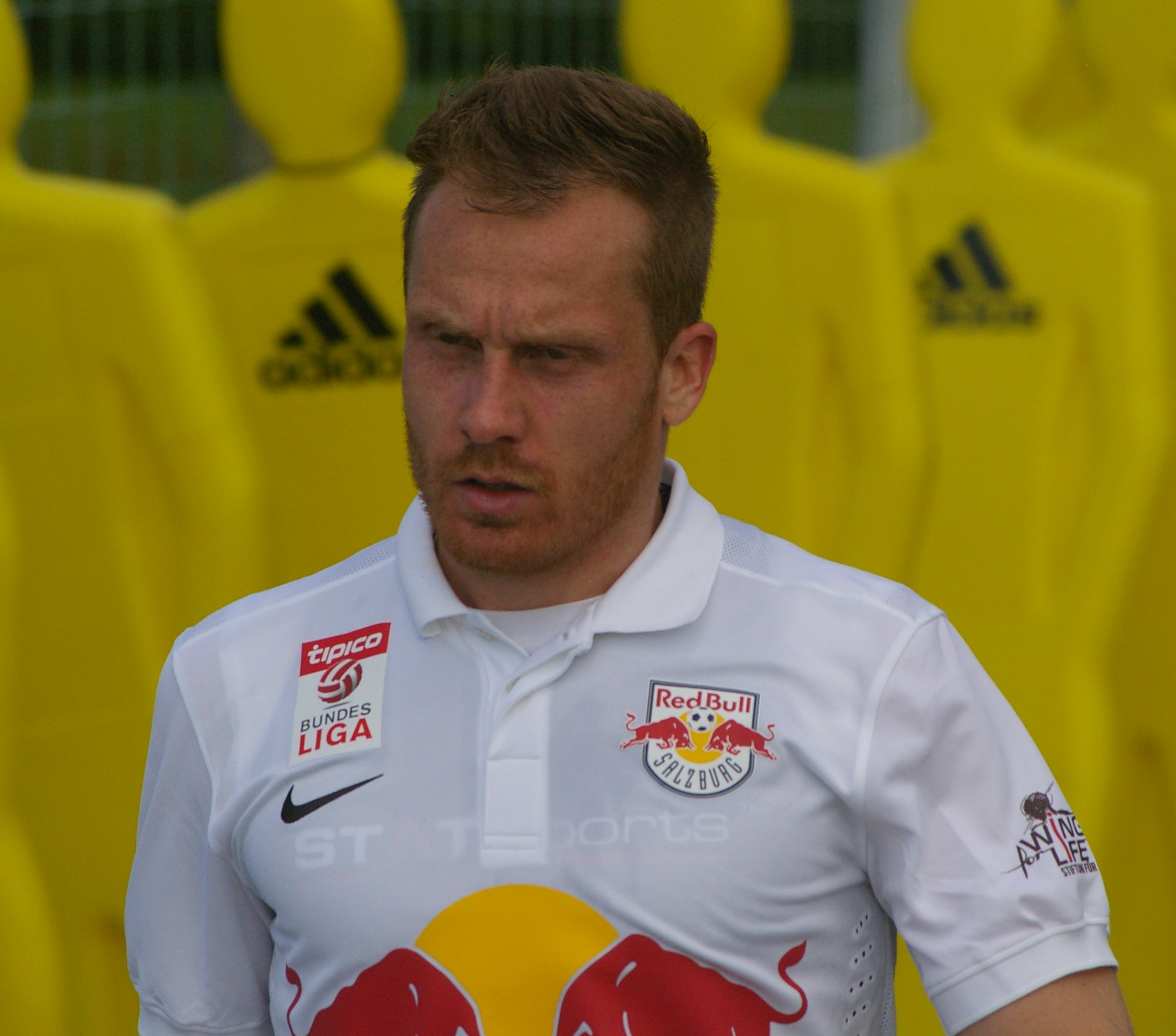 The Stierwoscha Trophy is a tournament for hobby teams. The winner plays versus the first team of FC Red Bull Salzburg